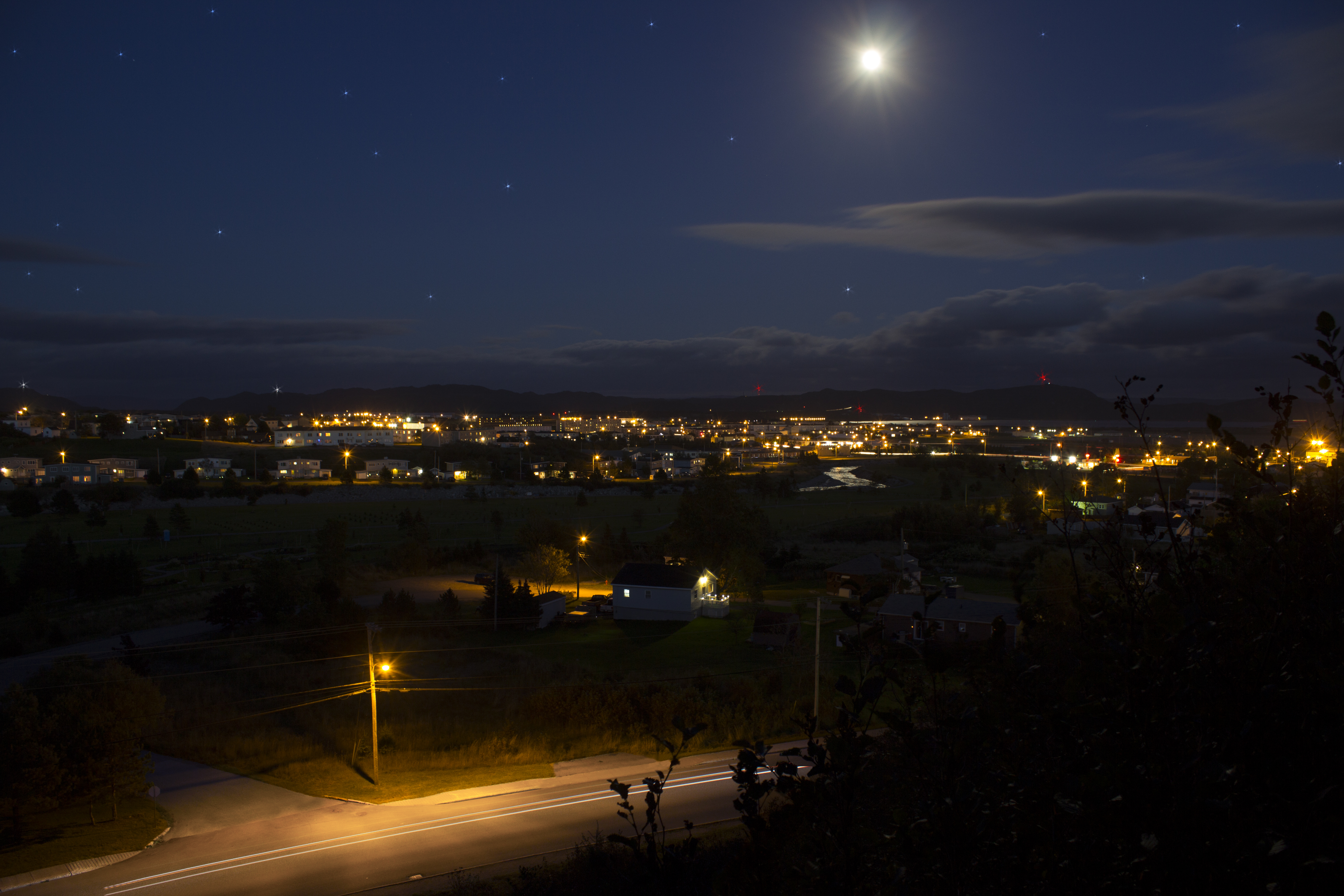 Long exposure of Stephenville, NL at night